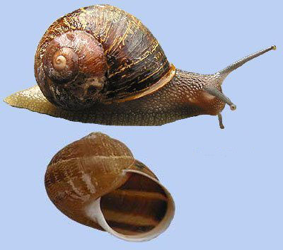 Helix aspersa; land snail from the Netherlands